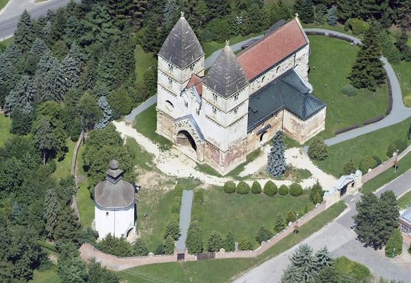 Ják, Hungary, aerial photography